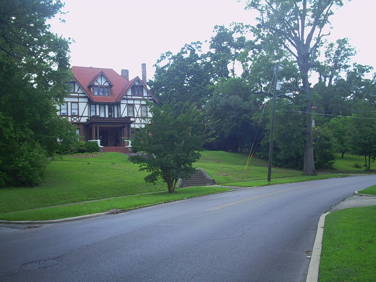 A house in Poplar Springs Road Historic District in Meridian, Mississippi.